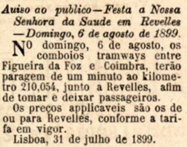 Public announcement of Companhia Real dos Caminhos de Ferro Portugueses (Royal Company of Portuguese Railways), informing that the tramway trains between Figueira da Foz and Coimbra would stop at Reveles Halt due to the festival of Nossa Senhora da Saúde. This image was published on the Diario Illustrado newspaper No. 9483, of 6th August 1899, and scanned by the Biblioteca Nacional de Portugal.